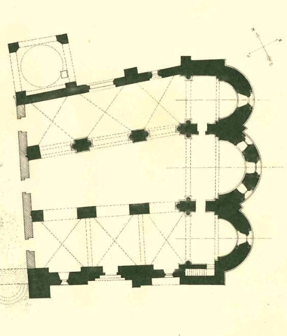 Saint John, Byblos